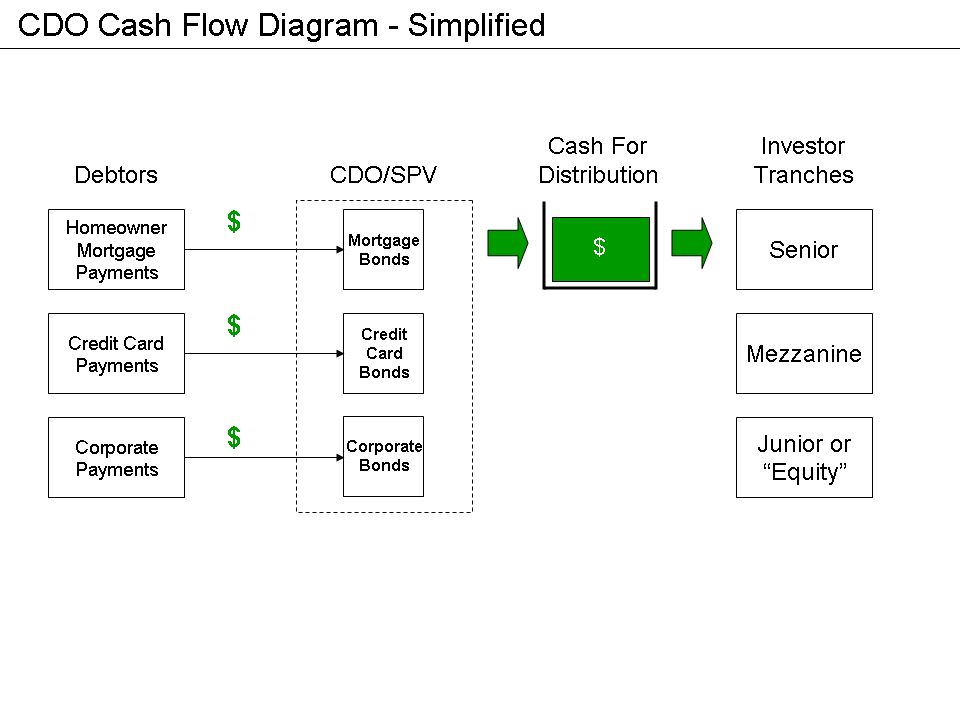 CDO Cash Flow Diagram - Simplified In simple terms, think of a CDO as a promise to pay cash flows to investors in a prescribed sequence, based on how much cash flow the CDO collects from the pool of bonds or other assets it owns. If cash collected by the CDO is insufficient to pay all of its investors, those in the lower (equity) layers (tranches) suffer losses first. The different layers typically received different credit ratings from rating agencies and different interest yields.[1] This diagram illustrates the cash flows of a CDO once it has been created. It does not illustrate the initial investment from the investors that the CDO/SPV (Special purpose vehicle) uses to acquire bonds and other assets. The diagram also does not show various intermediaries that may be involved, such as mortgage servicers that collect mortgage payments, for example. It basically shows how debtor payments are accumulated and then distributed to investors in various tranches in a priority sequence. One analogy is to think of the cash flow from the CDO's portfolio of securities (say mortgage payments from mortgage-backed bonds) as water flowing into the cups of the investors in the senior tranches first, then mezzanine tranches, then equity tranches. If a large portion of the mortgages enter default, there is insufficient cash flow to fill all these cups and equity tranch investors face the losses first. References: ↑ Anna Katherine Barnett-Hart The Story of the CDO Market Meltdown: An Empirical Analysis-March 2009-Cited by Michael Lewis in "The Big Short" Similar diagrams: Bionic Turtle-CDO Diagram FCIC-IMF Diagram of RMBS and CDO